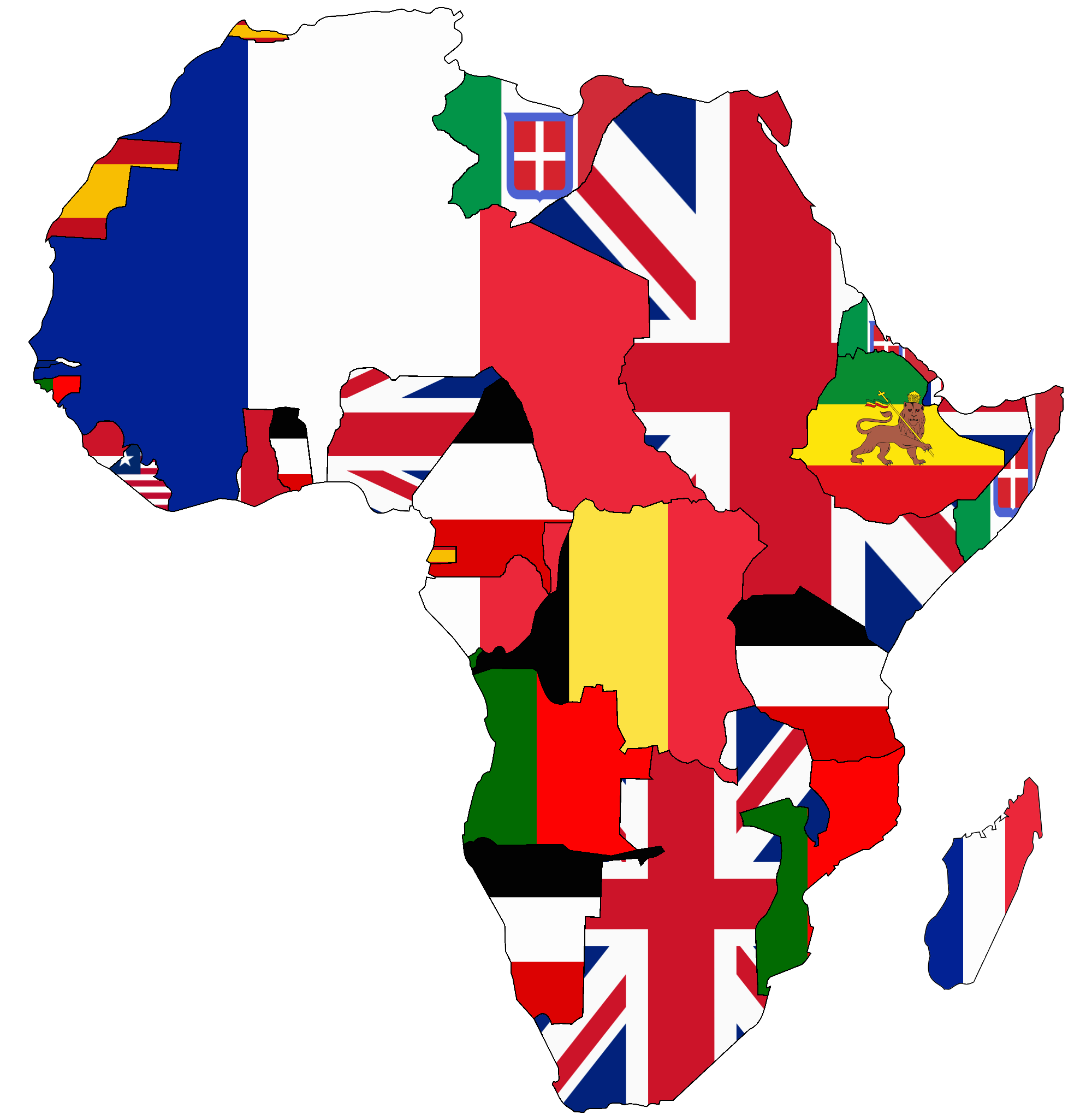 Flag map of Africa in 1913. It shows all of the European Colonies and the two independent nations of Liberia and Ethiopia.